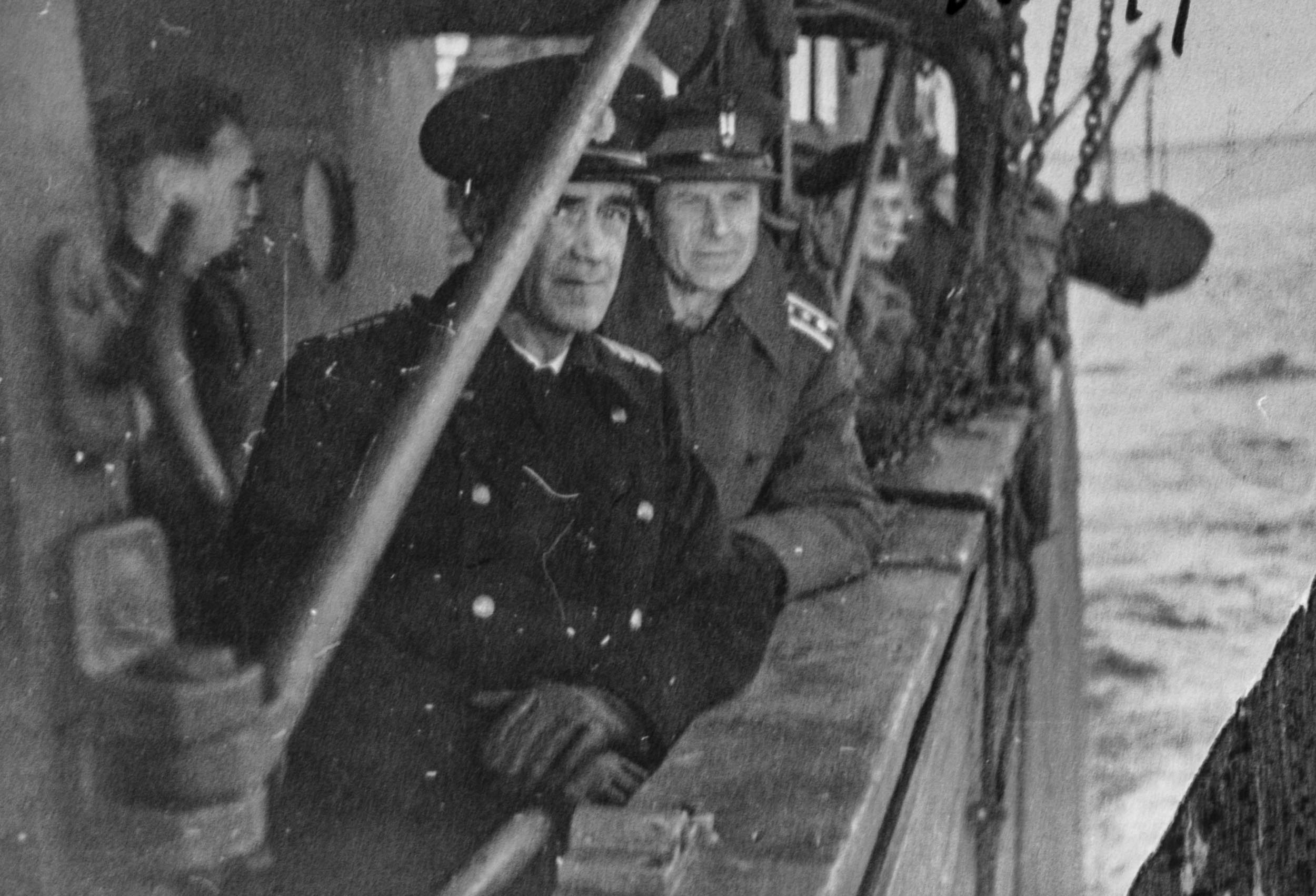 Photos from Flickr album "Evakueringen og frigjøringen av Finnmark" (The Evacuation and Liberation of Finnmark, 2015) ny Riksarkivet (National Archives of Norway). Towards the end of World War II, with Operation Nordlicht, the Germans used the scorched earth tactic in Finnmark and northern Troms to halt the Red Army. As a consequence of this, few houses survived the war, and a large part of the population was forcefully evacuated further south (Tromsø was crowded), but many people avoided evacuation by hiding in caves and mountain huts and waited until the Germans were gone, then inspected their burned homes. There were 11,000 houses, 4,700 cow sheds, 106 schools, 27 churches, and 21 hospitals burned. There were 22,000 communications lines destroyed, roads were blown up, boats destroyed, animals killed, and 1,000 children separated from their parents. However, after taking the town of Kirkenes on 25 October 1944 (as the first town in Norway), the Red Army did not attempt further offensives in Norway. The town was handed over to Norway as the war ended. When war was over, more than 70,000 people were left homeless in Finnmark. The government imposed a temporary ban on residents returning to Finnmark because of the danger of landmines. The ban lasted until the summer of 1945 when evacuees were told that they could finally return home.